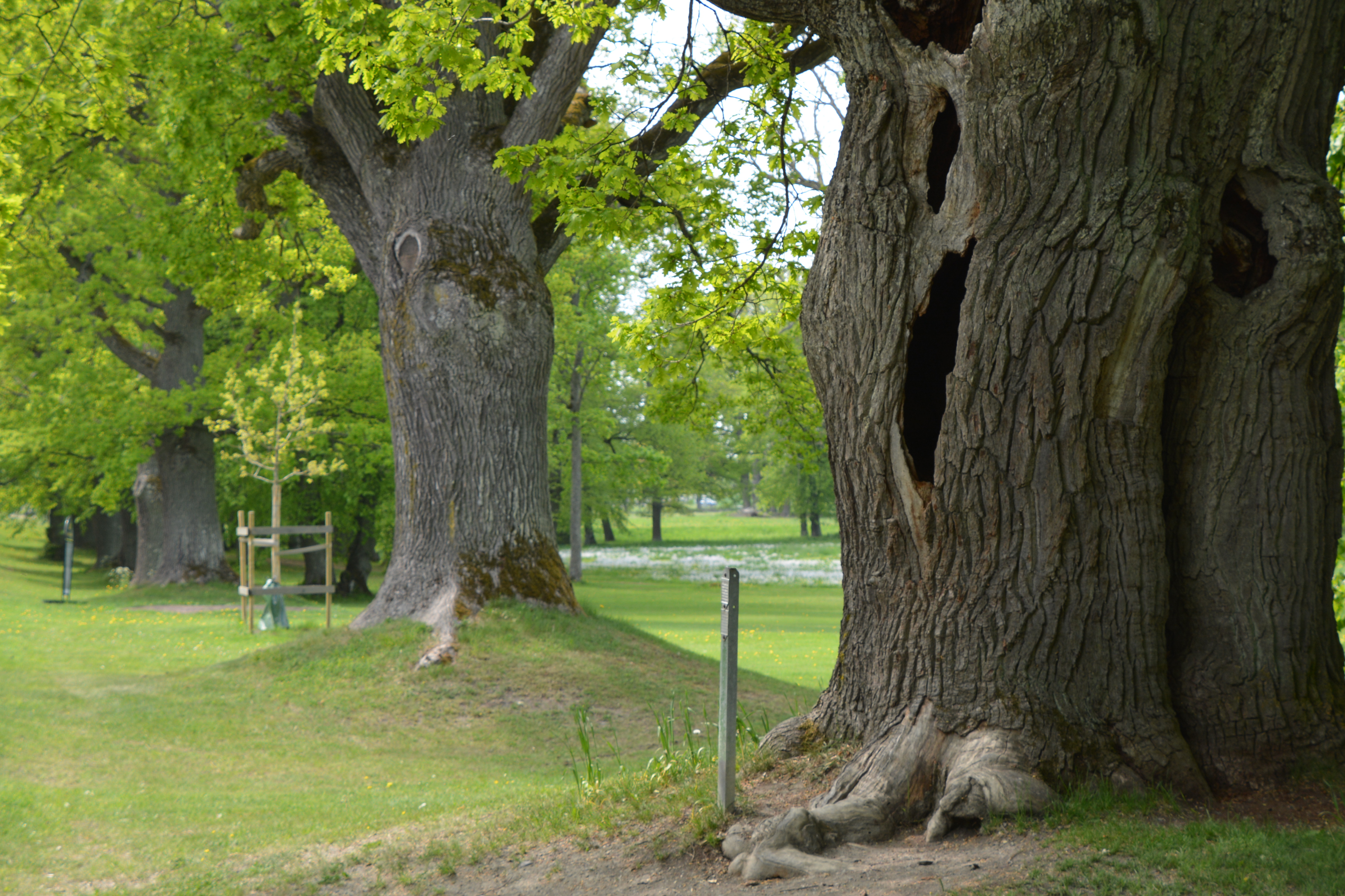 Ek med mulmhål i stammen Oak with mulm hole